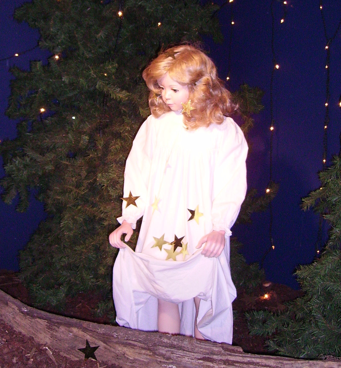 fairy garden in Ludwigsburg, Germany